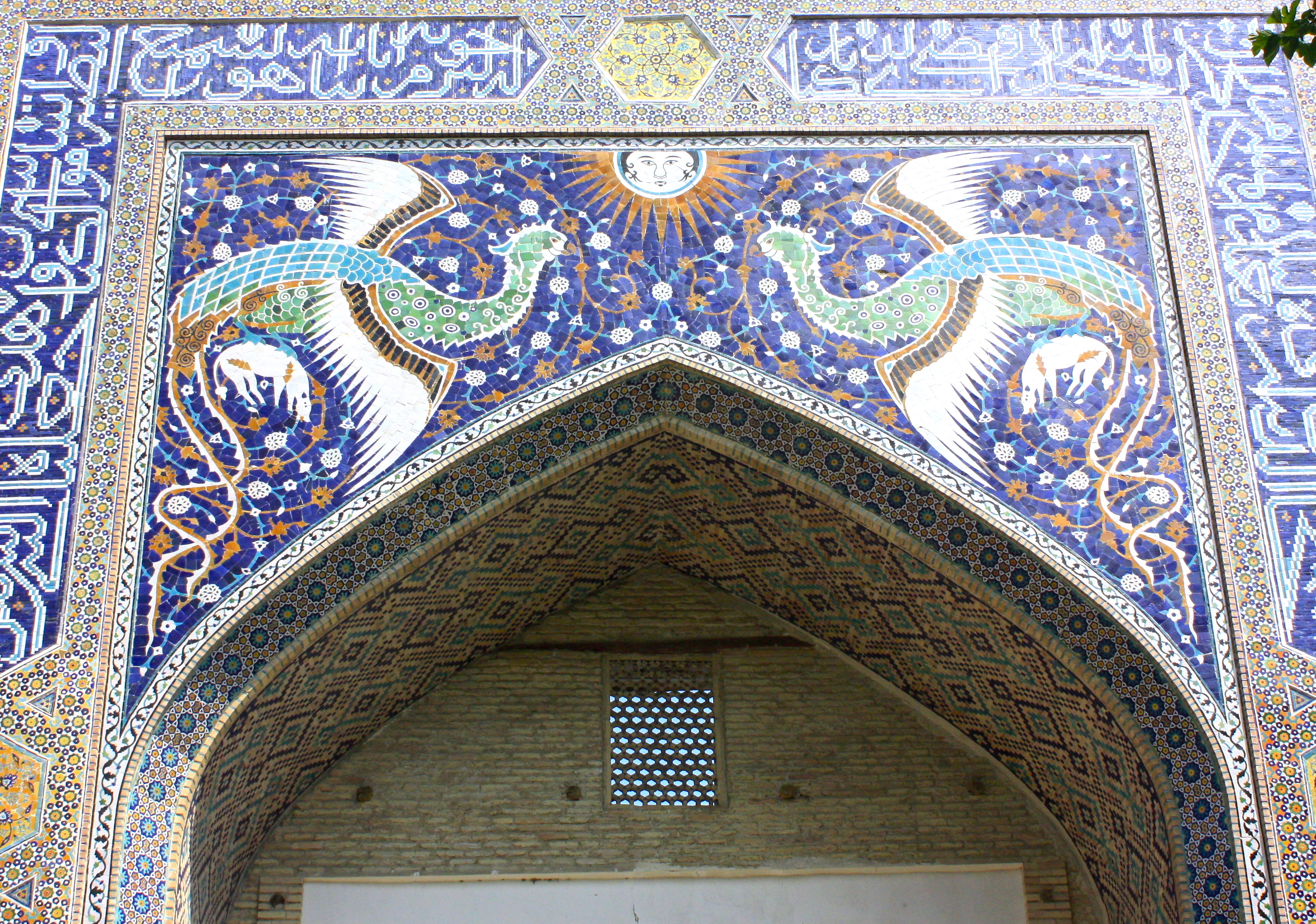 Mosaic detail at the Nadir Divan-begi Madrasah in Bukhara, Uzbekistan.